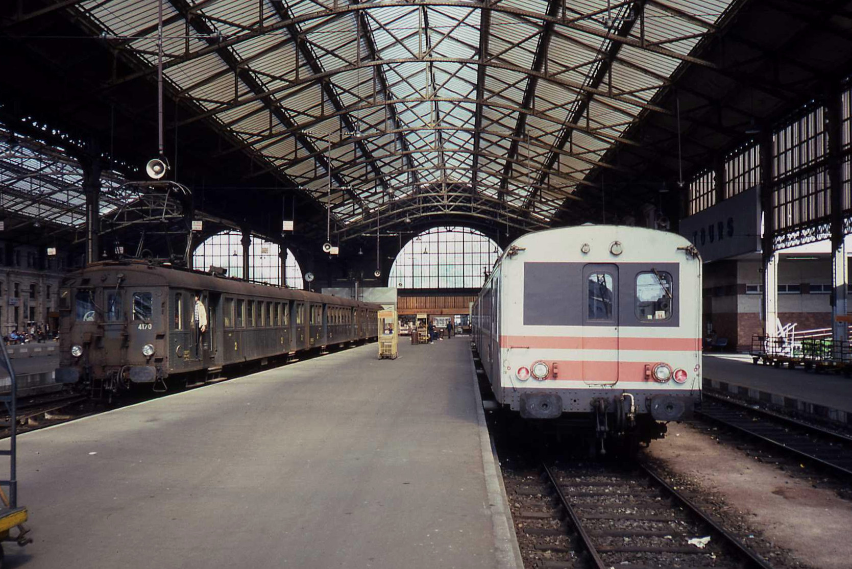 Electric multiple unit Z4170 in Tours station and a shuttletrain on the right for St. Pierre-des-Corps station.